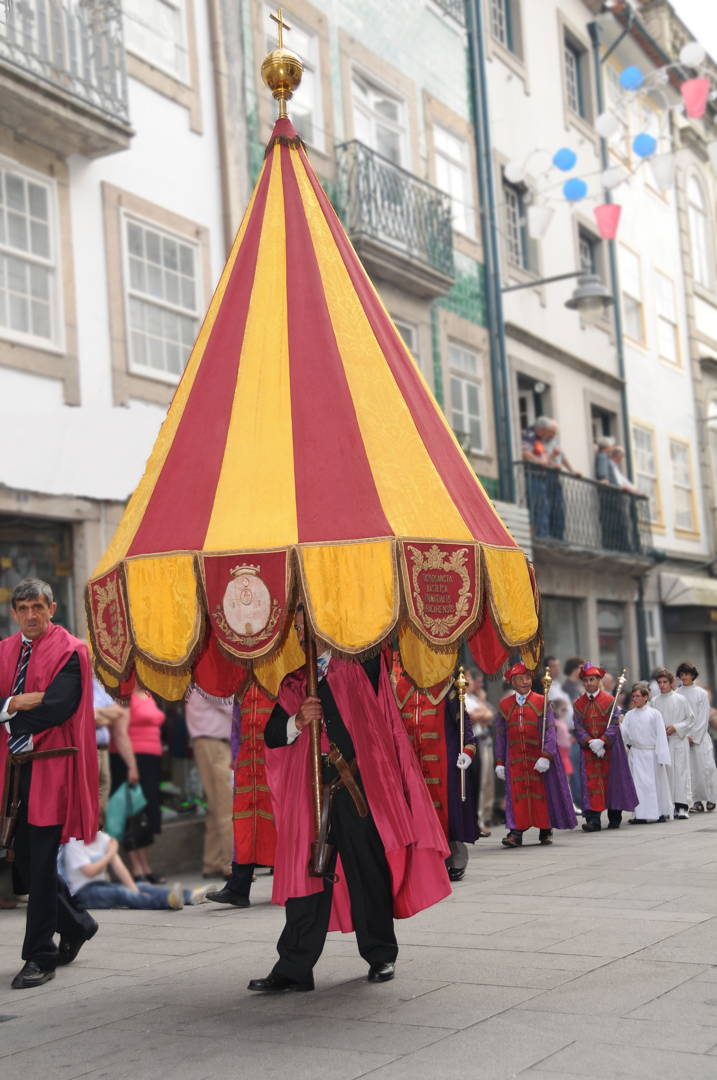 Procession of the Saints of Month of June, in Braga, Portugal.